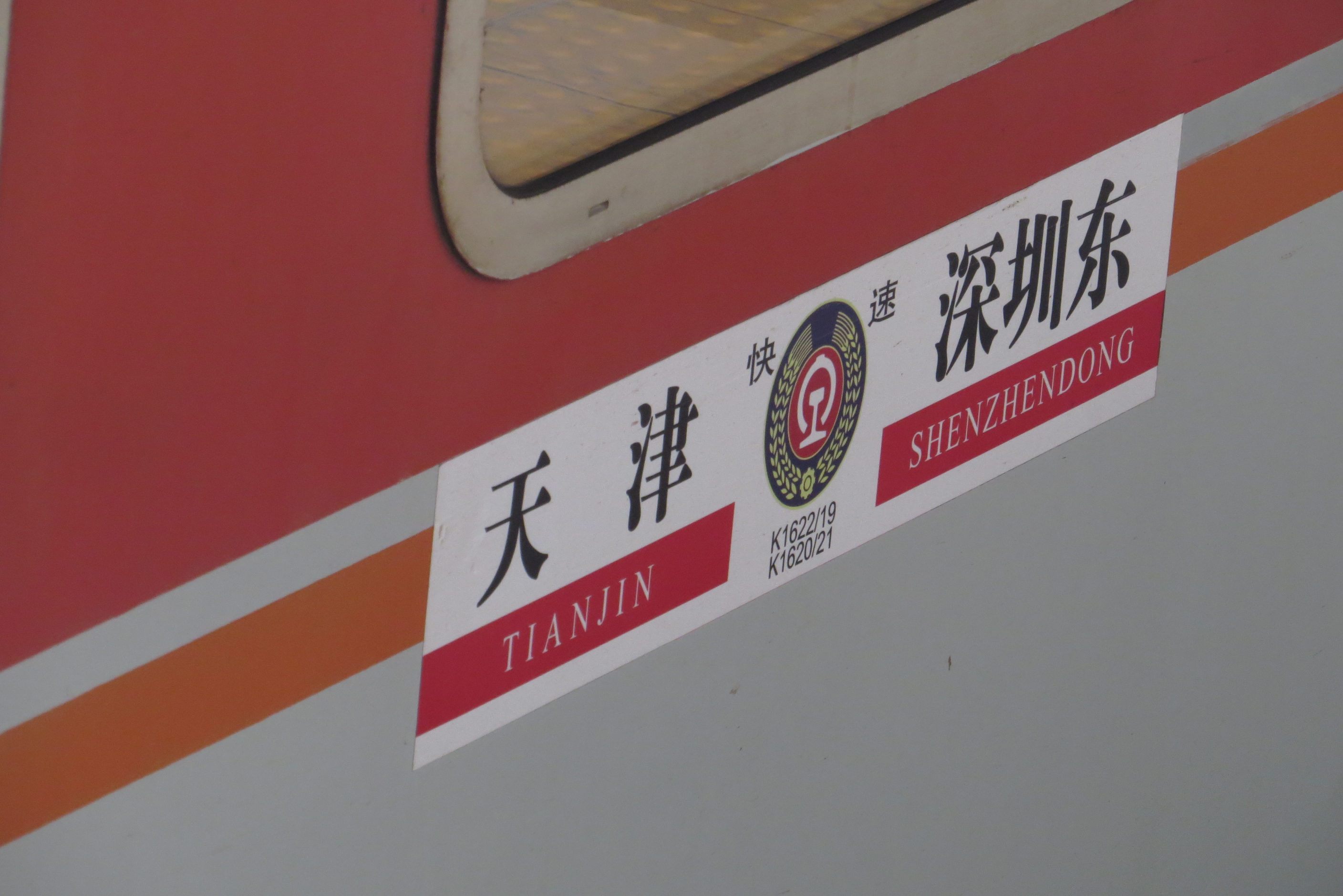 Tianjin to Shenzhen East.